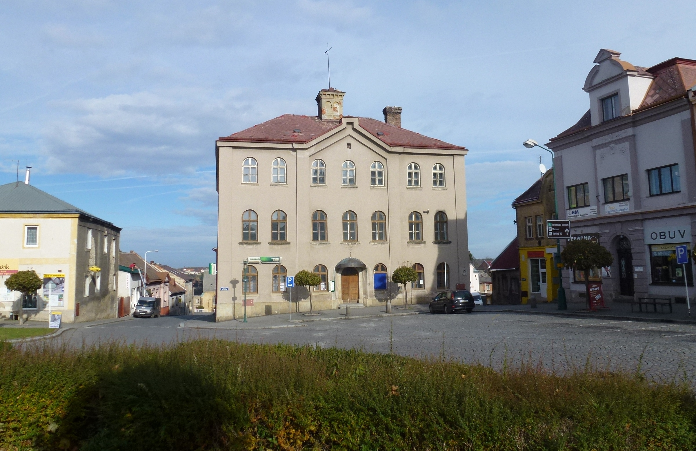 Building of former District Court in Skuteč, Palacky Square.